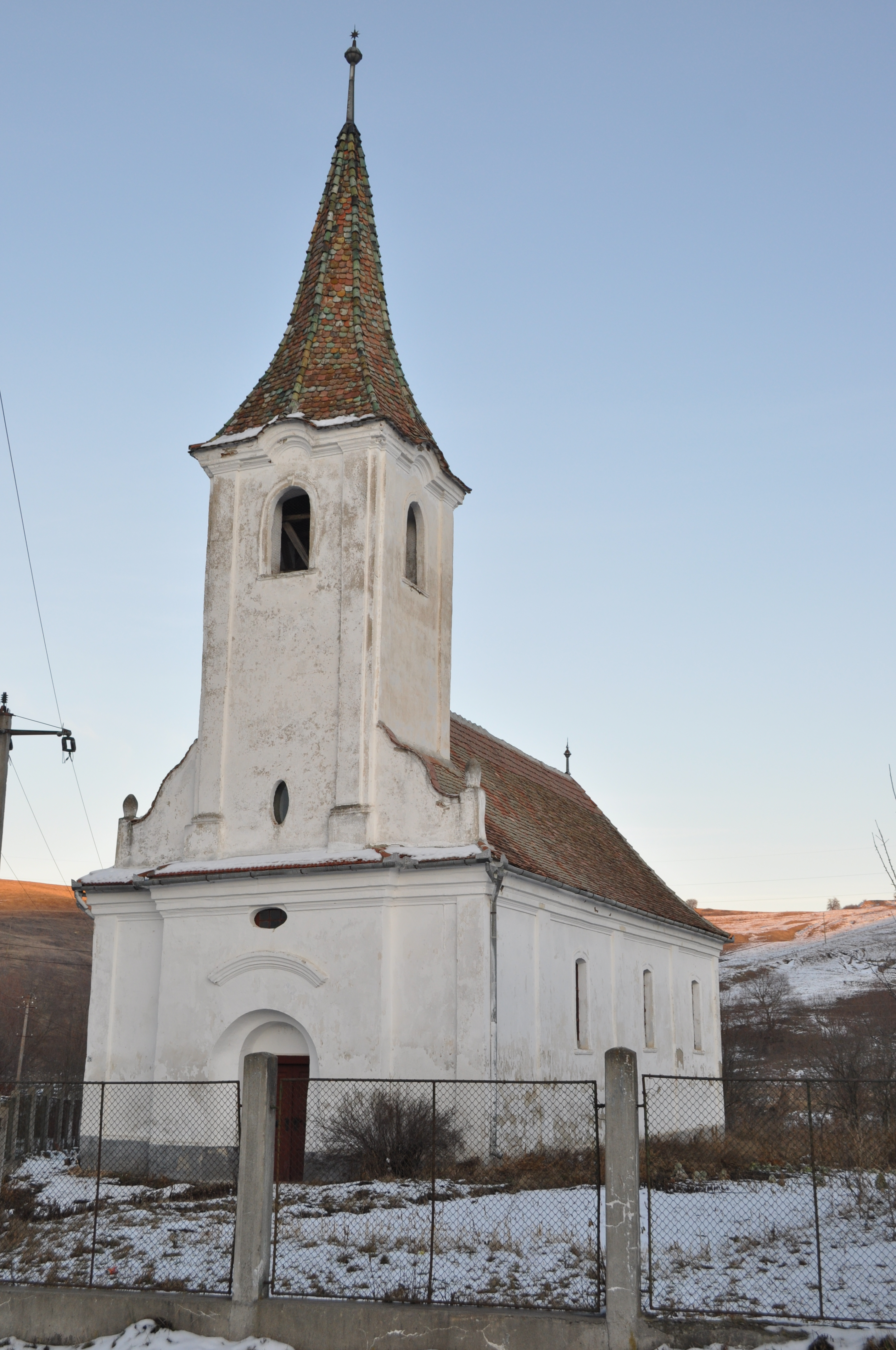 Bârghiș, Sibiu county, Romania